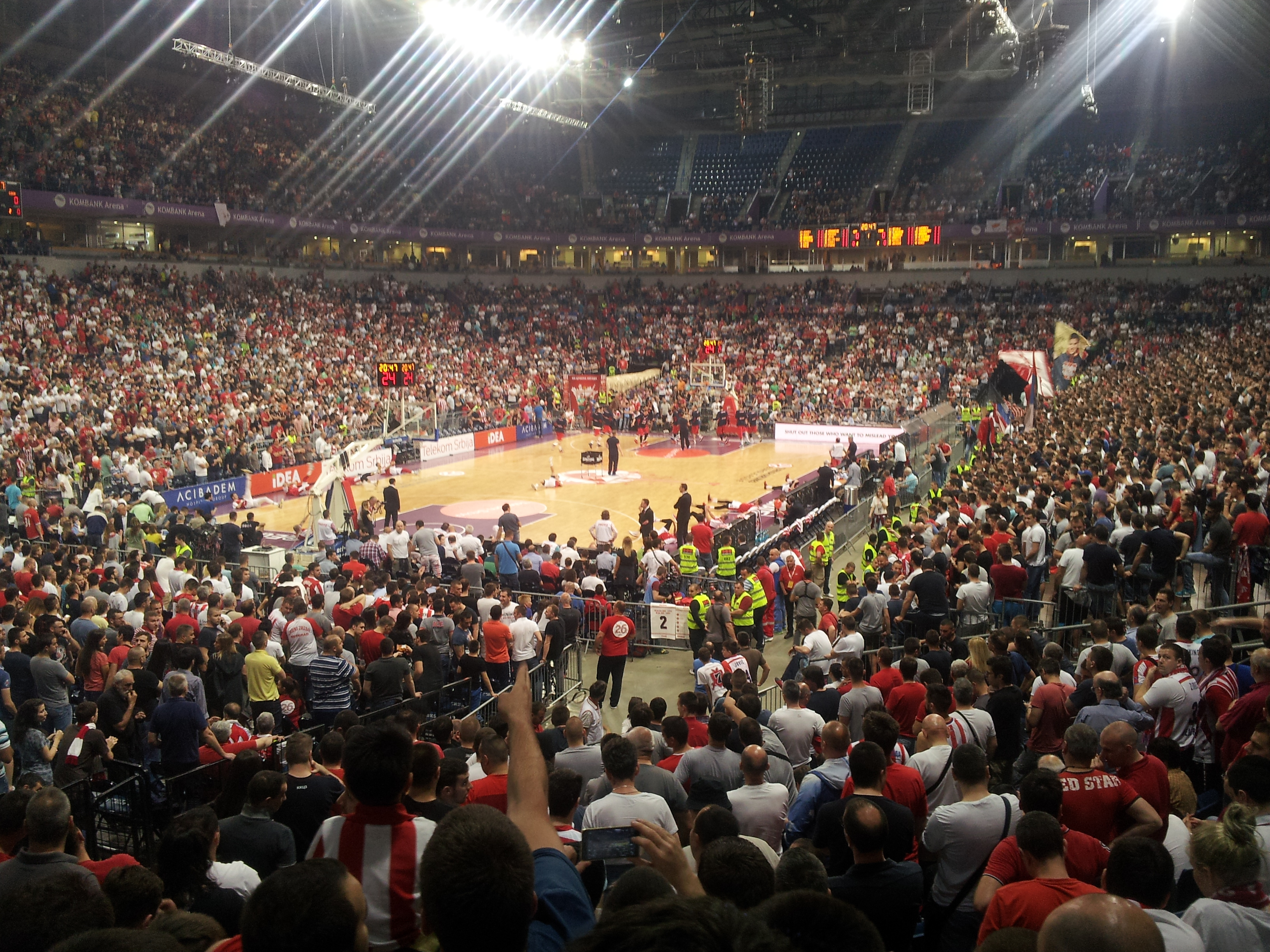 Before the Euroleague game in TOP8, BC Red Star-CSKA Moscow